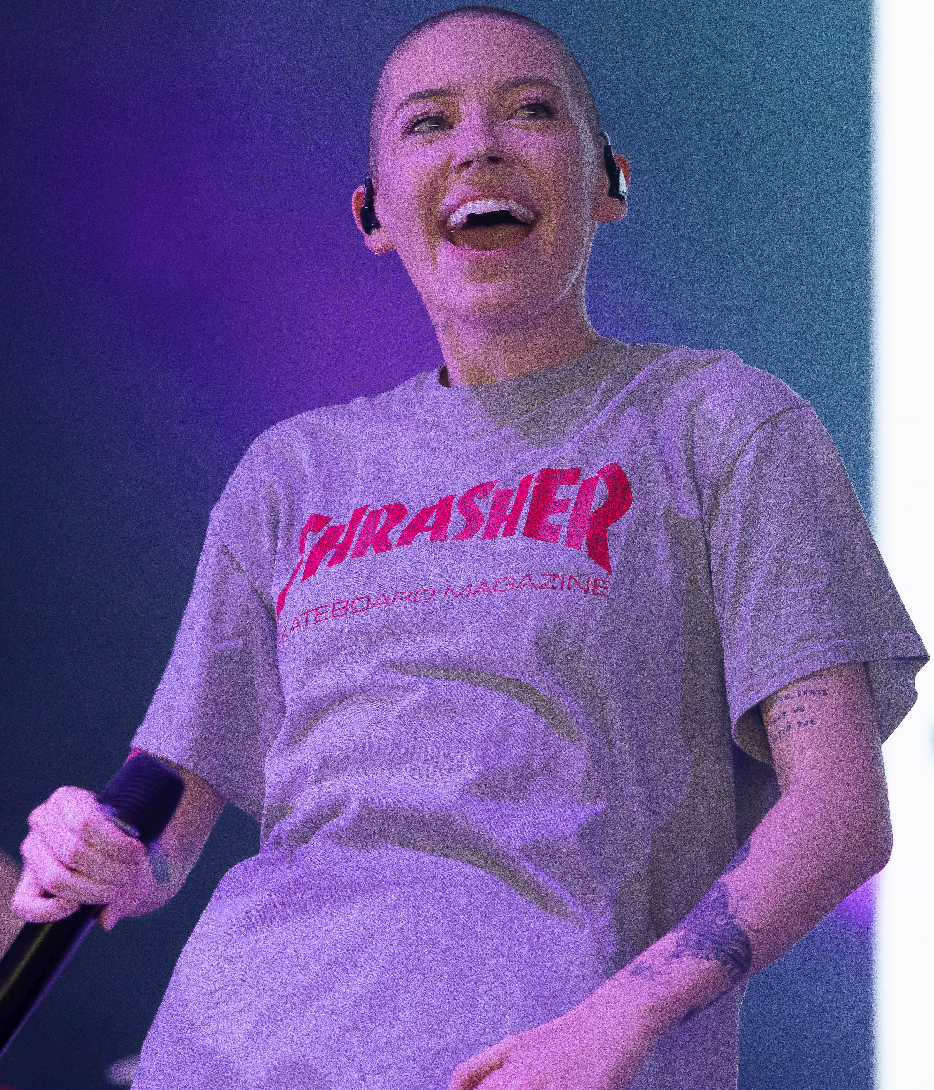 Bishop Briggs